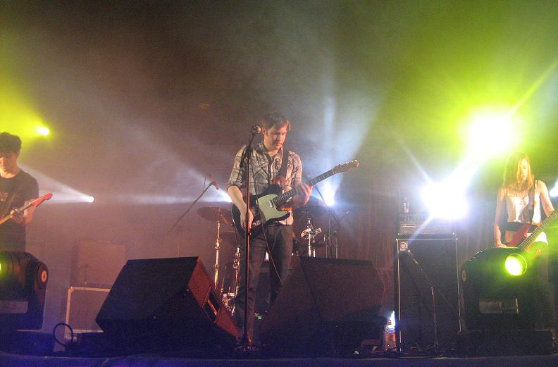 stellastarr* concert in Mèxico 2008